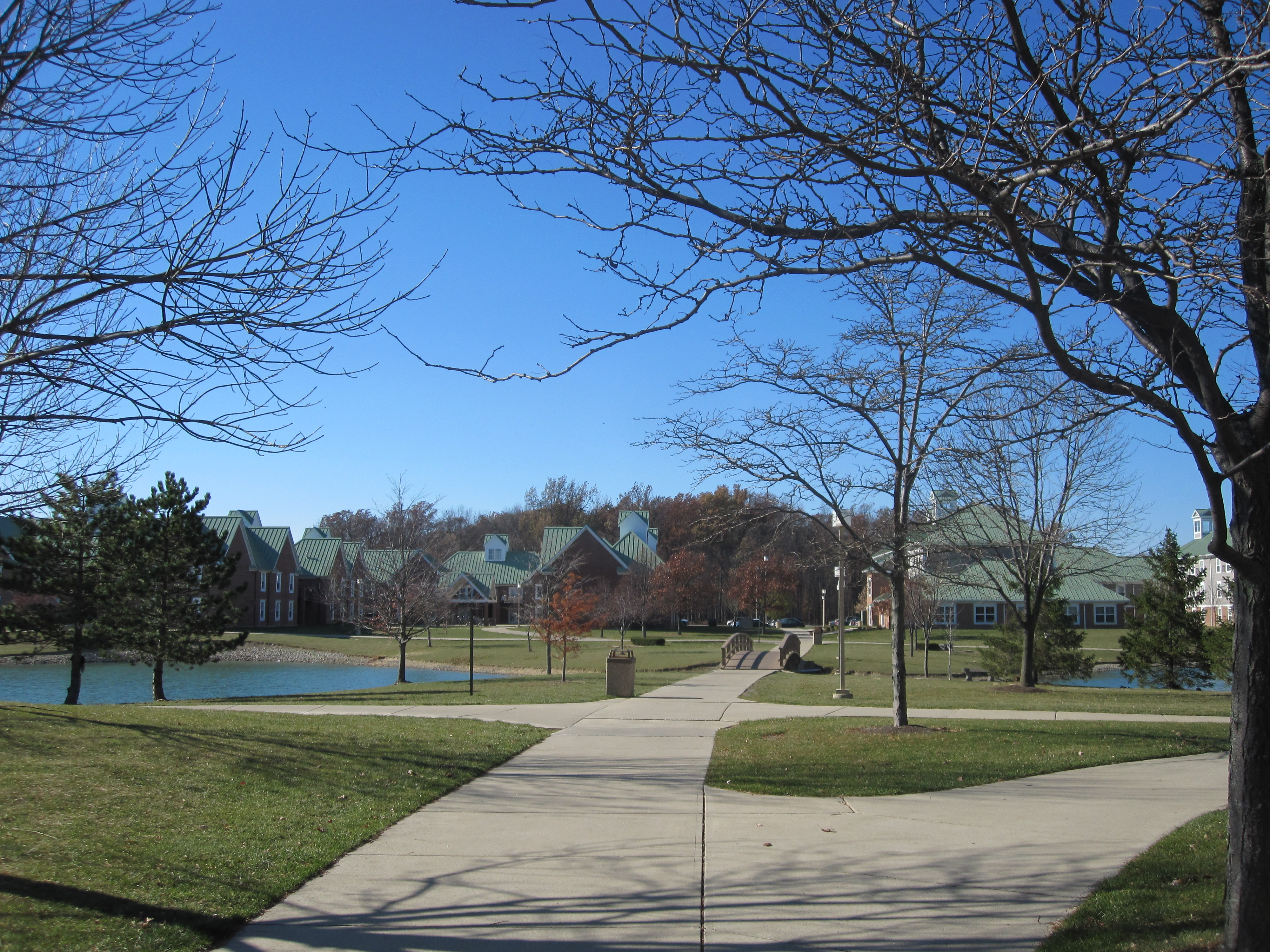 Photo of Ohio Northern University campus, view of undergraduate student dorms.